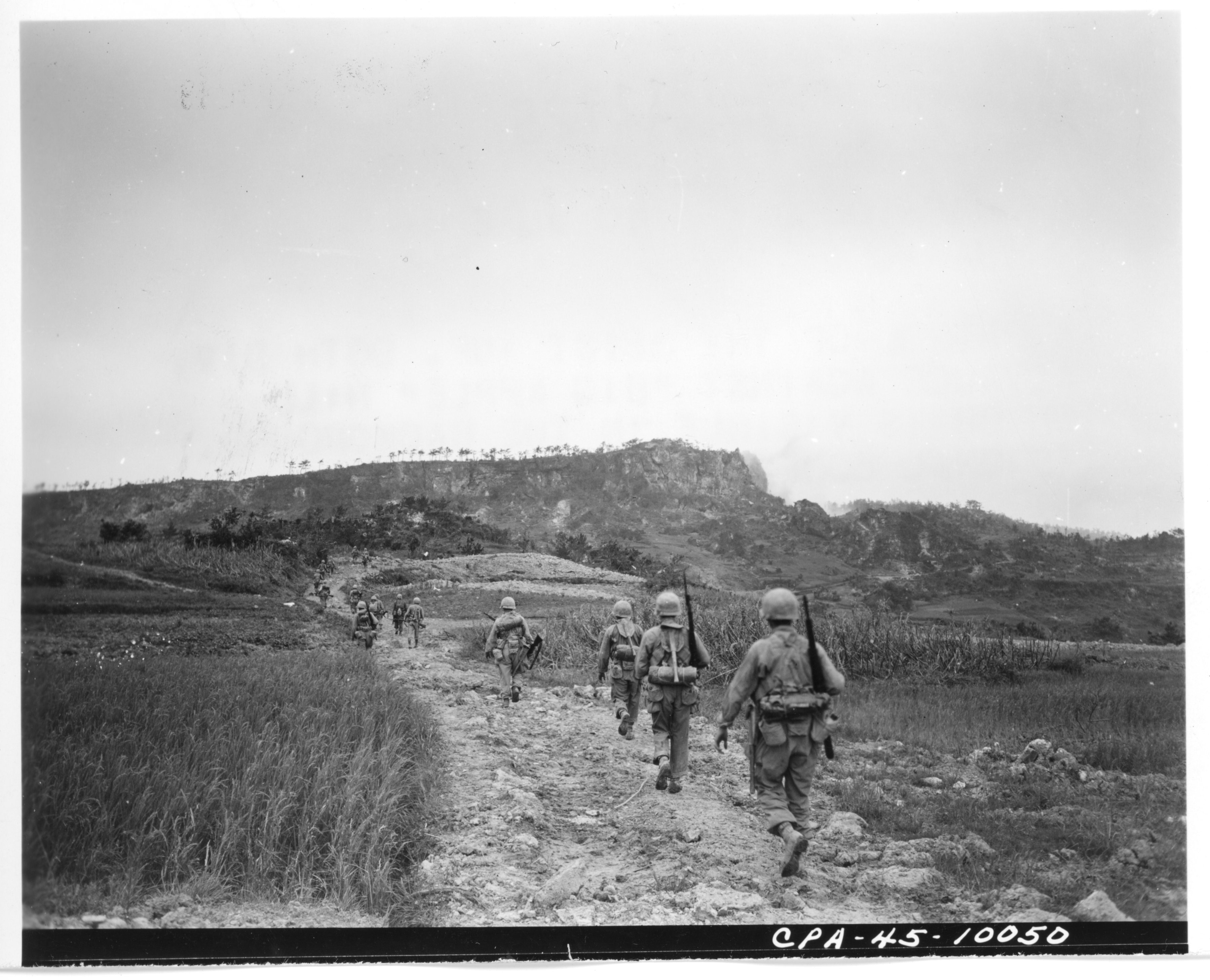 A patrol of the 381st Inf., 96th Div. advance against "Big Apple" hill which is visible in the background. 10 June 1945.